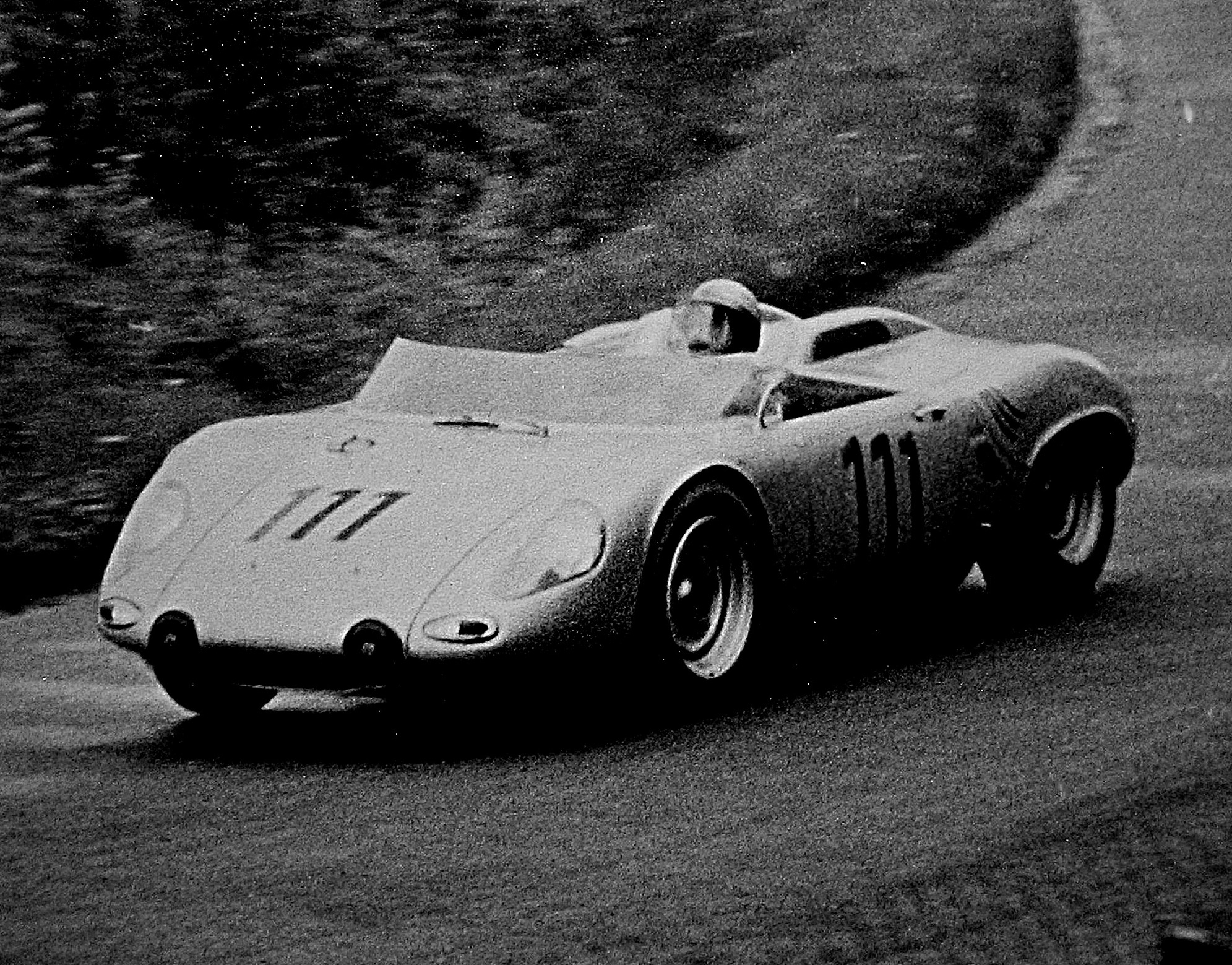 Hans Herrmann in Porsche Typ 718 W-RS Spyder (8-cylinder-motor) at 1000 km race on Nürburgring.